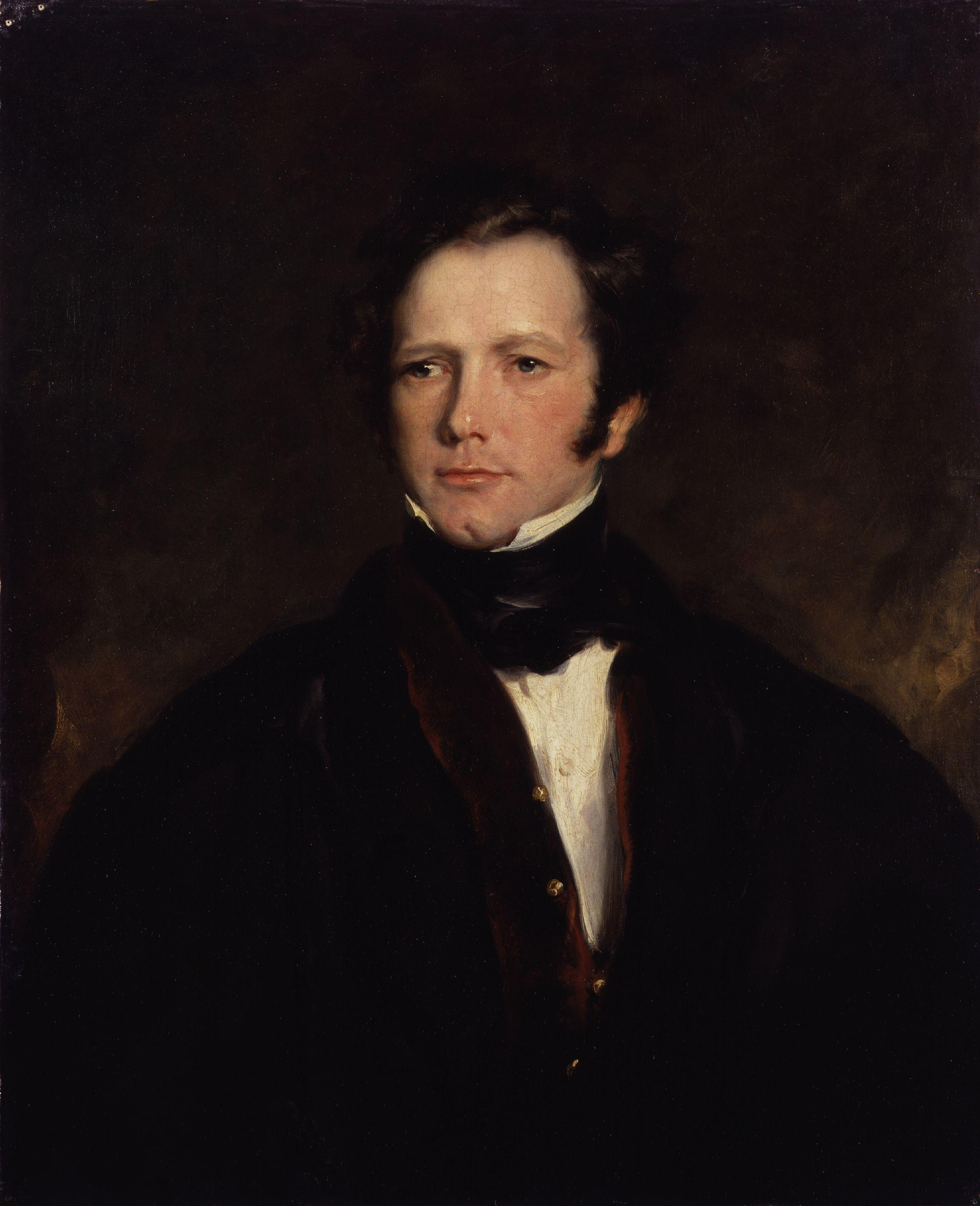 Frederick Marryat, by John Simpson (died 1847). All images in this batch have been confirmed as author died before 1939 according to the official death date listed by the NPG.